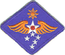 Emblem of the US Far East Air Forces (1944-1957) Source: United States Air Force Pacific Air Forces Website